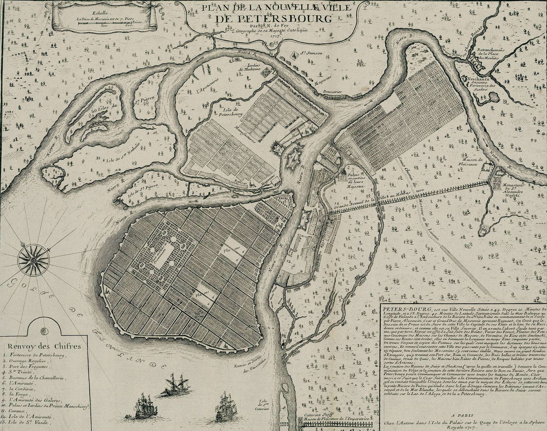 Map of Saint Petersburg (Russia)